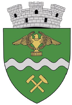 Coat of arms of Zlatna, Alba County, Romania.